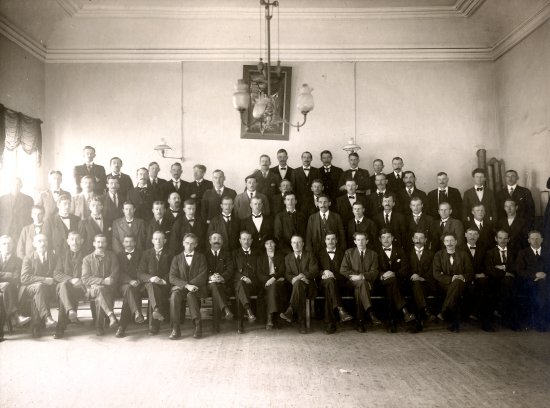 SAC conference November 25-26 1917, held on Ågatan 3 in Örebro.